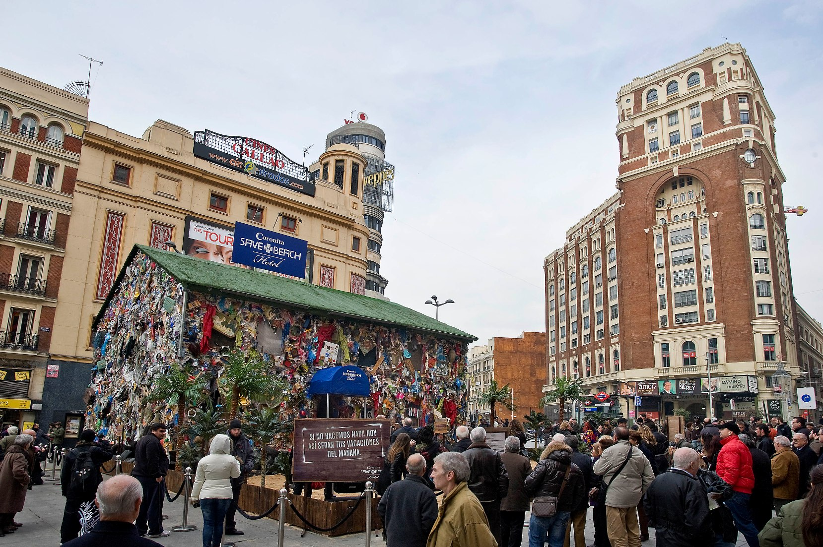 Madrid 2011 Save the Beach Hotel of HA Schult